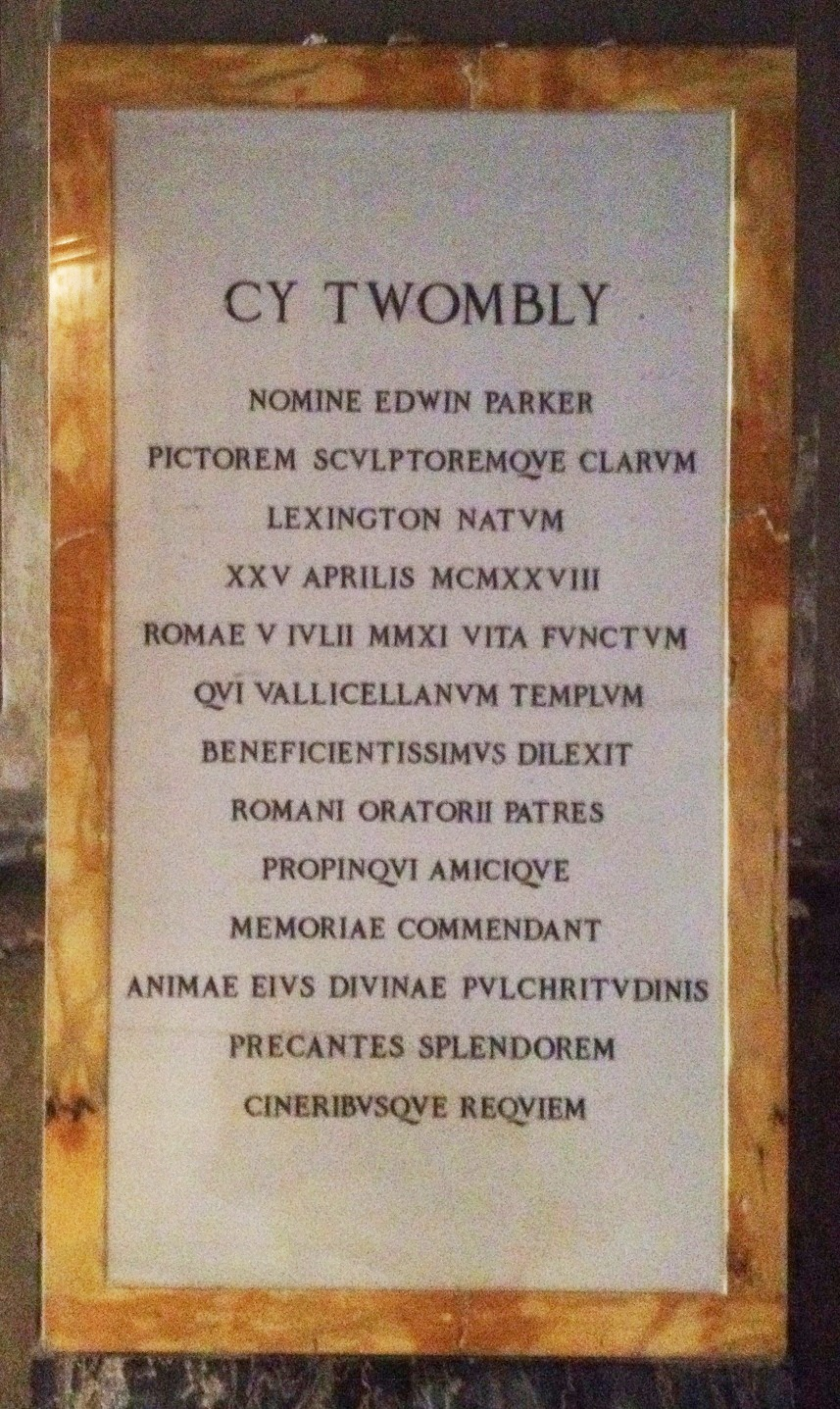 Commemorative plaque for Cy Twombly in Santa Maria in Vallicella, Rome. The Latin inscription says: The Roman Oratorians and the relatives and friends recommend Cy Twombly, by civil name Edwin Parker Twombly, the famous painter and sculptor, born in Lexington, 25 April 1928, deceased in Rome, 5 July 2011, who loved this Vallicella church and benefited it generously, to pious memory, praying that his soul may partake of the splendour of the divine beauty and his mortal remains may rest in peace.